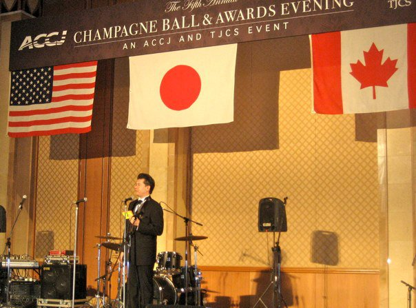 Julian Bashore Emceeing an Event with 400 Dignitaries in Attendance - November 19, 2010 - Nagoya, Japan